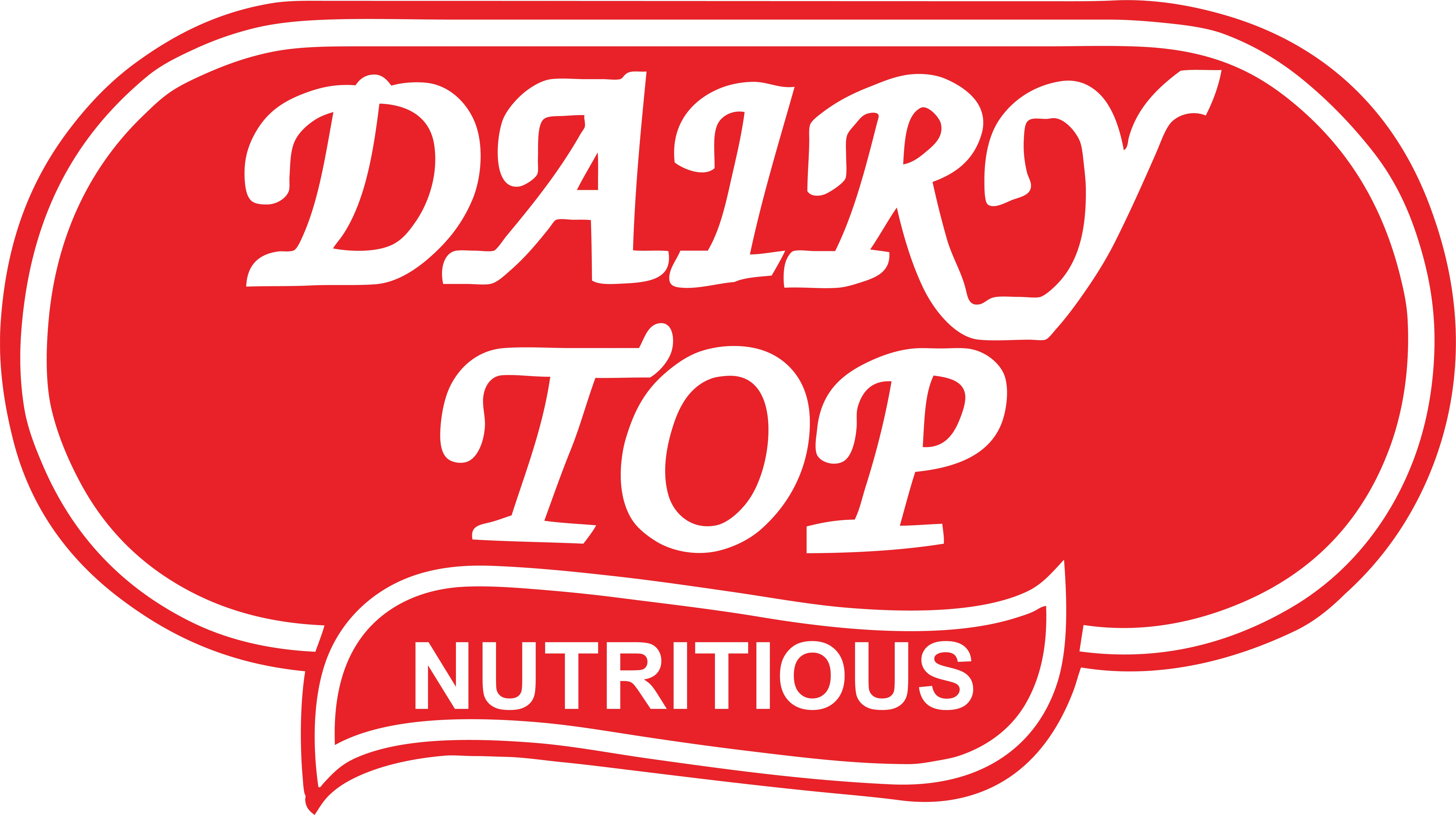 Lakeside Dairy Logo